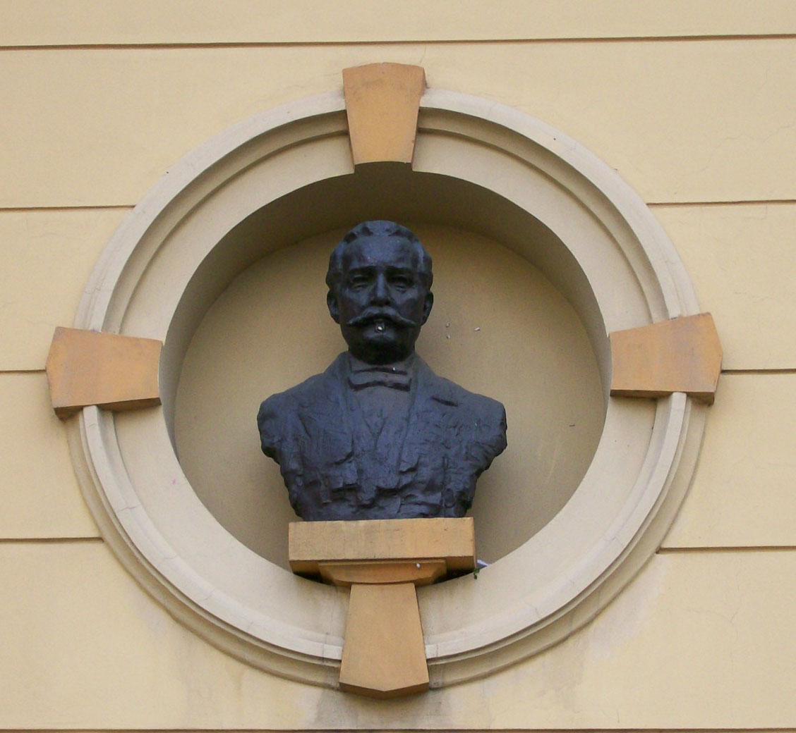 Hermann Bolle (bust in public place in Zagreb).